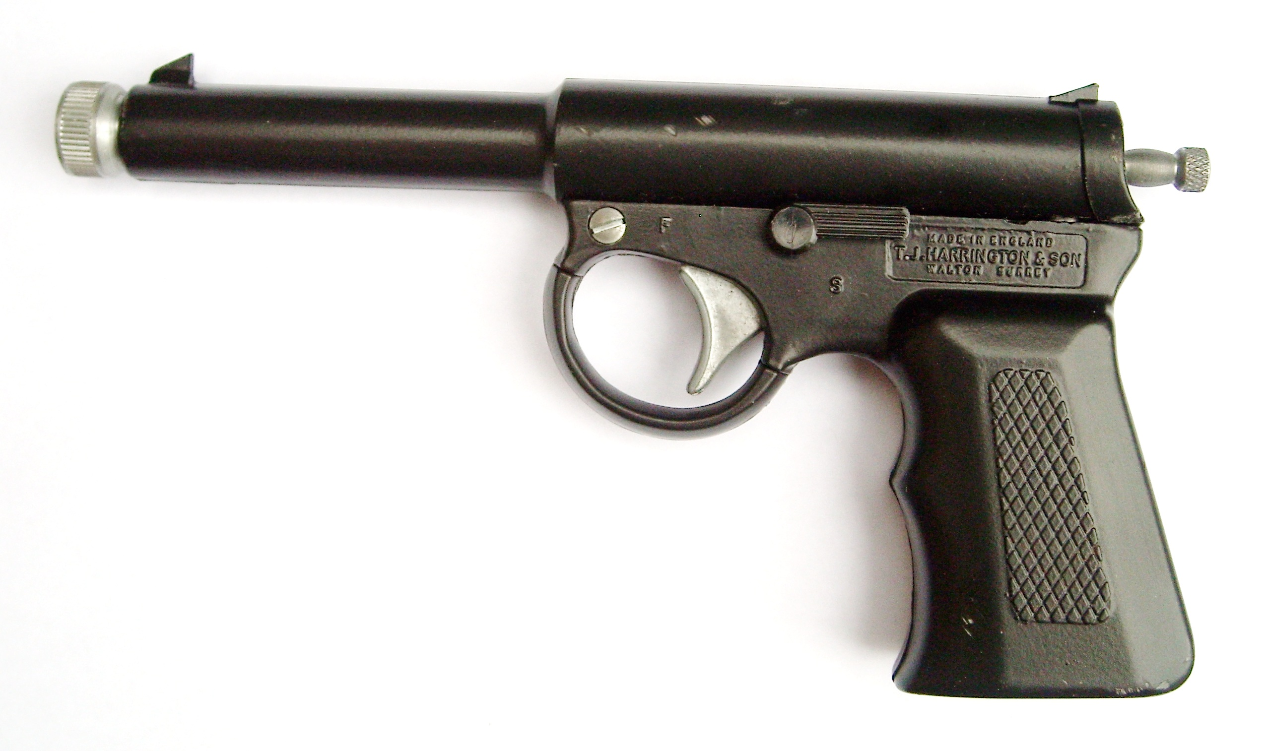 An cocked Gat air pistol pointing left. The safety catch is on.